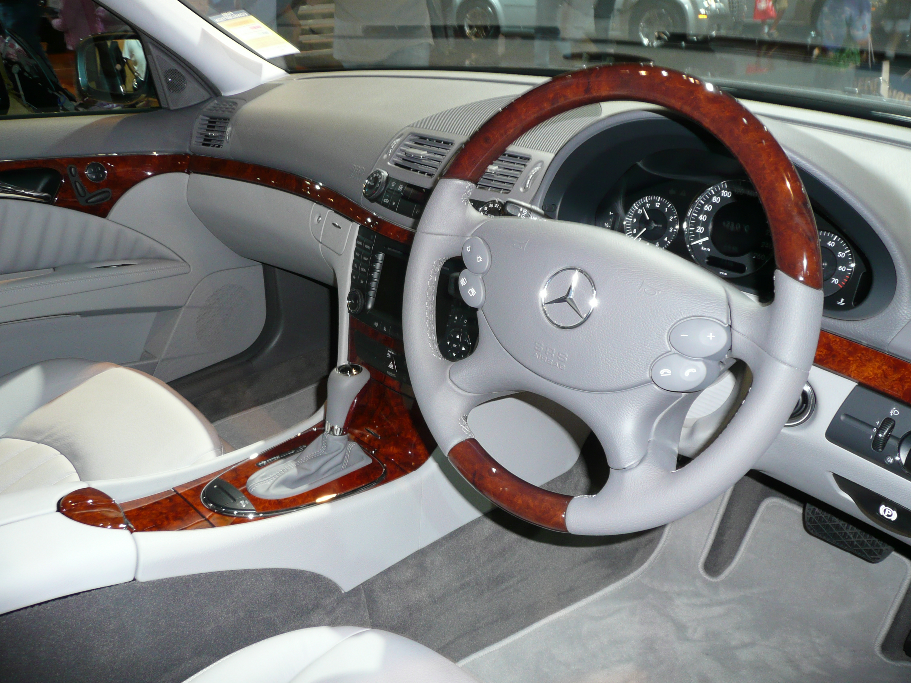 2007 Mercedes-Benz E 500 (W 211 MY08) sedan. Photographed at the 2007 Australian International Motor Show, Sydney, New South Wales, Australia.